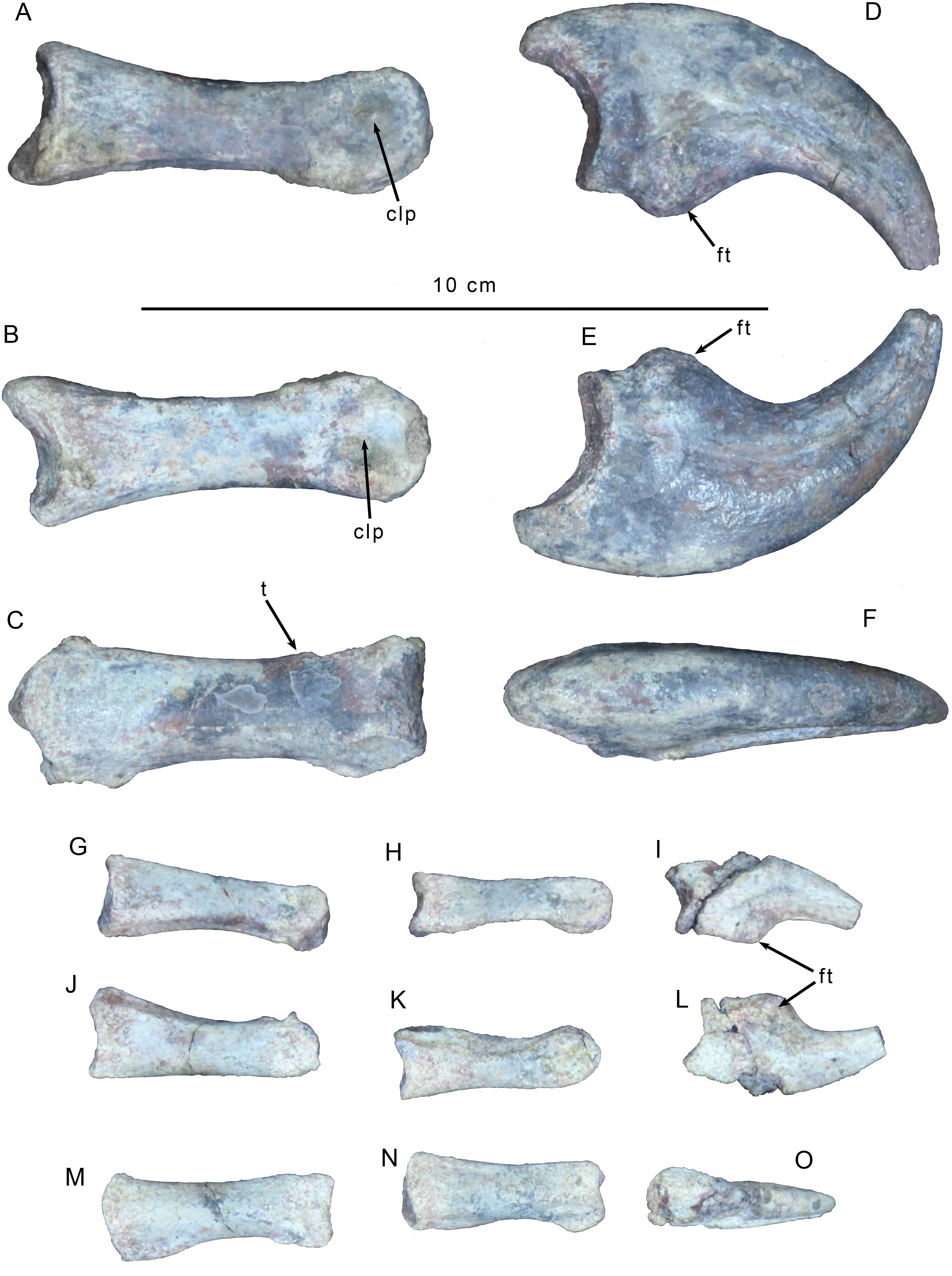 Left manual digits of Gualicho shinyae. Digit I phalanges in (A, D) medial, (B, E) lateral, and (C, F) dorsal views. Digit II phalanges in (G-I) medial, (J-L) lateral, and (M-O) dorsal views. Abbreviations: clp, collateral ligament pit; ft, flexor tubercle; t tuber.